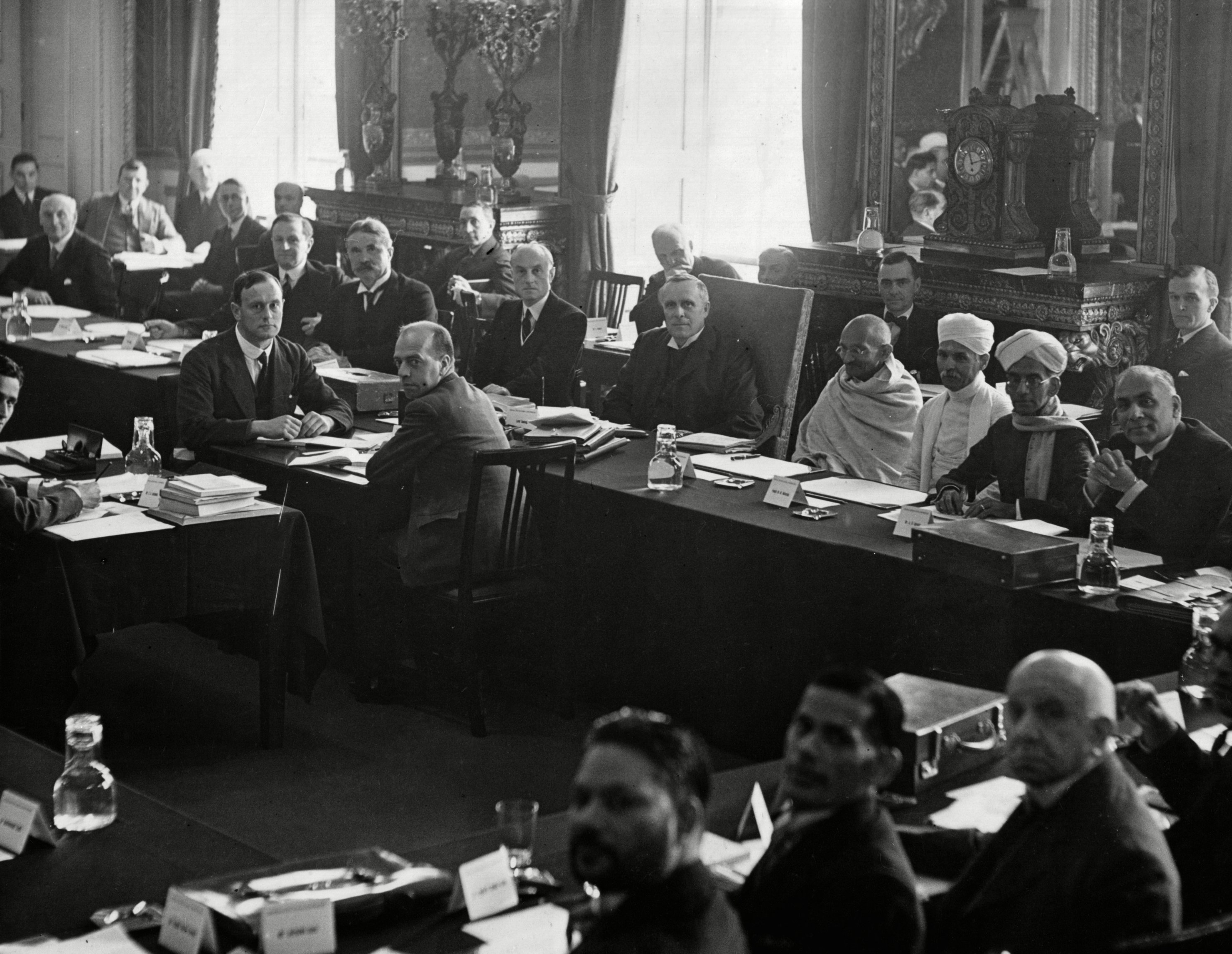 Federal Structure Committee of the India Round-Table Conference at the St. James Palace in London, England. Lord Sankey is seen in the chair, with, on his left, Gandhi and Pandit Malaviya, will state the Congress case. September 14 1931. British Prime Minister Ramsay MacDonald to the right of Mahatma Gandhi, and fourth from the left in the foreground is Dr. B. R. Ambedkar, representative of the "Depressed Classes."